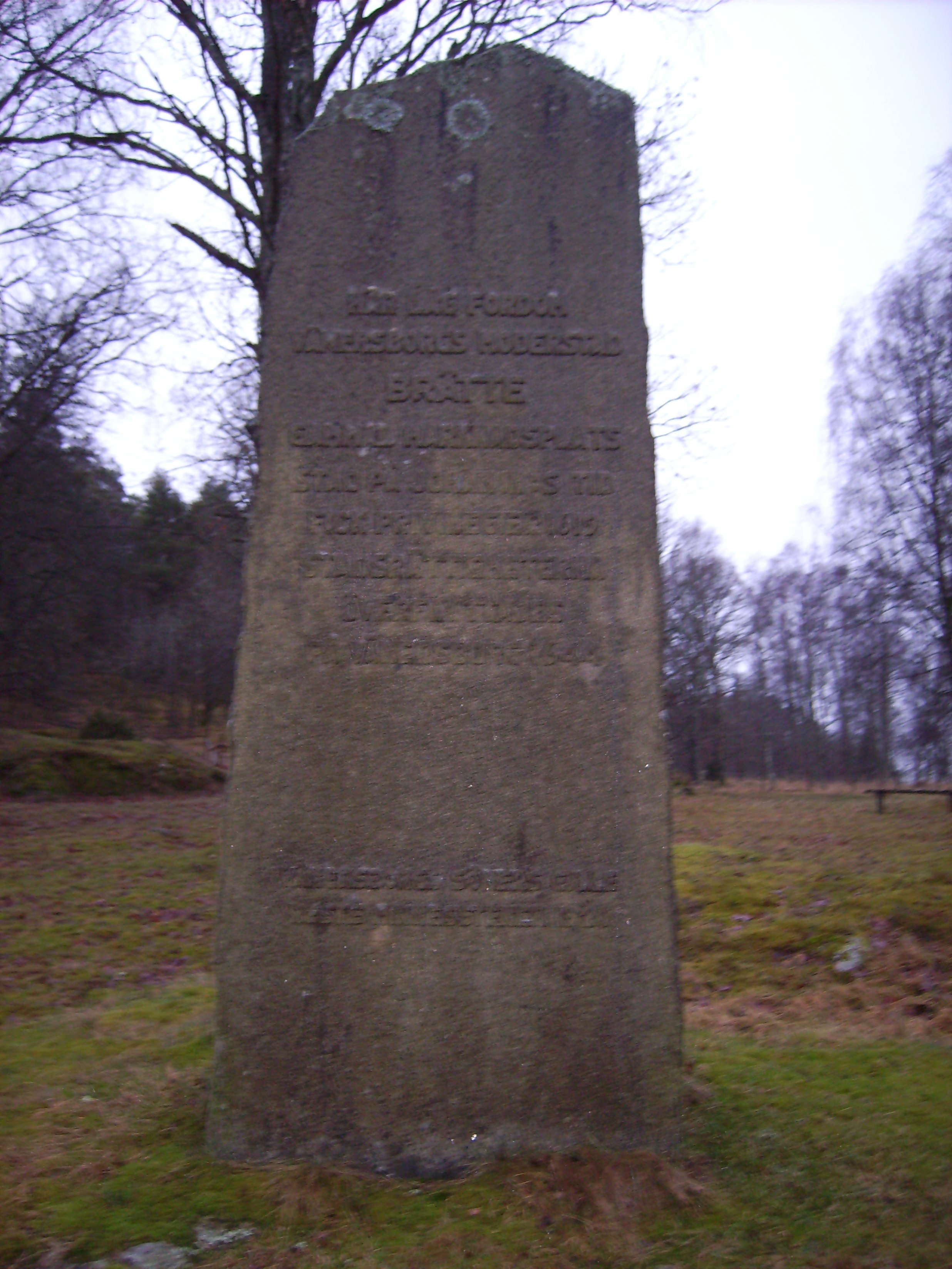 The ruins of Brätte, parent town of Vänersborg. It was some time in the 1580s that Brätte market place was obtained its first charter. Trade here “took off” with the growth of the iron trade southwards from the landscape Värmland. Brätte had a brief period of greatness in the 1610s, when its population was doubled by fugitives from the town Nya Lödöse, after that settlement had fallen to the Danes. The boom ended in 1619, when Sweden recovered the occupied territories. The Brätte settlement was transferred in 1641 to Huvudnäs, and the new Brätte, re-named Vänersborg, received its first charter in 1644. Some of the finds from excavions at Brätte are on display in Vänersborgs museum. The last excavation was made 1944.